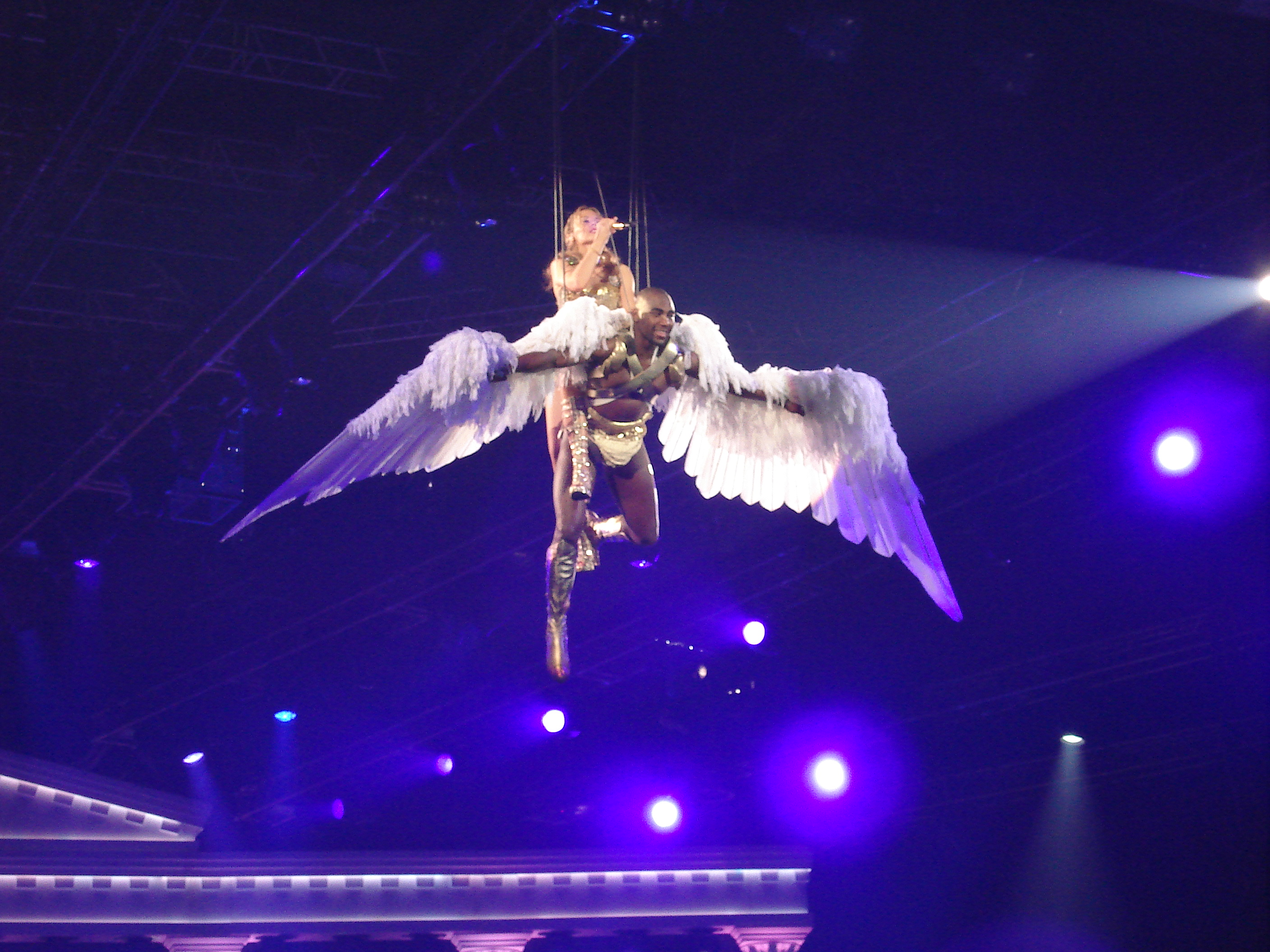 Kylie Minogue flies over the audience on the back of an angel during her show, Aphrodite - Les Folies Tour.